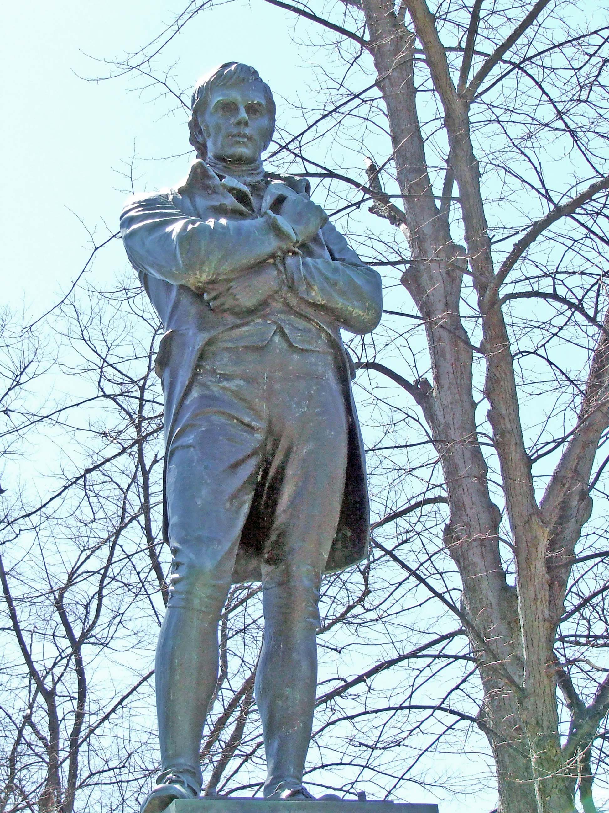 Robert Burns statue, Victoria Park in downtown Halifax, Nova Scotia. The statue was erected by the North British Society of Halifax in 1919. Sculpture by G.A. Lawson.